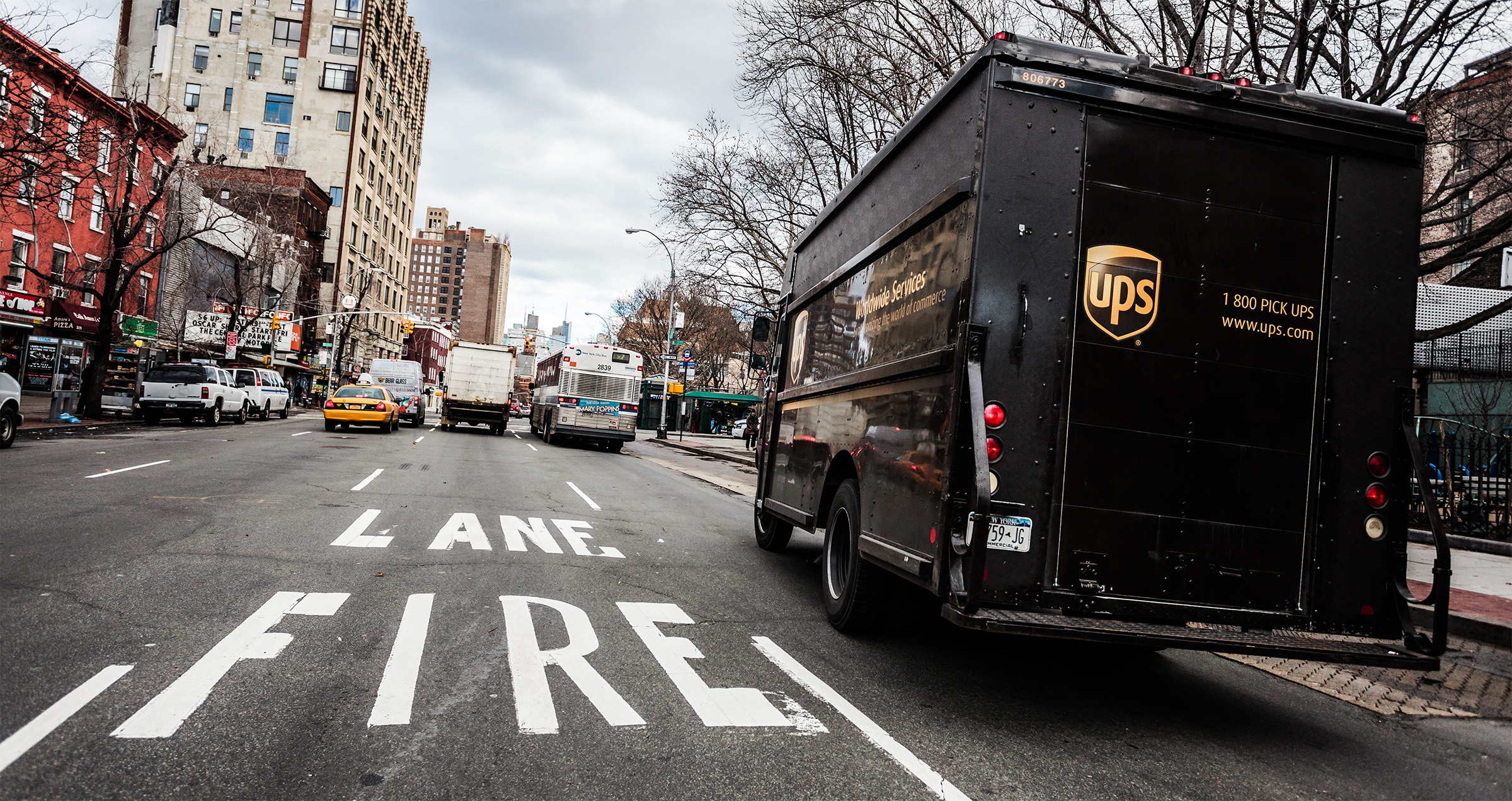 Looking north/uptown on 6th Avenue (Avenue of the Americas) in Greenwich Village, New York City, from between Carmine Street (on the left) and Minetta Lane (on the right) and West 3rd Street. The IFC Center at left is a cinema even with the T-junction of West 3rd on the right. Highly visible in photo: a marked "Fire Lane" on 6th and a UPS van.